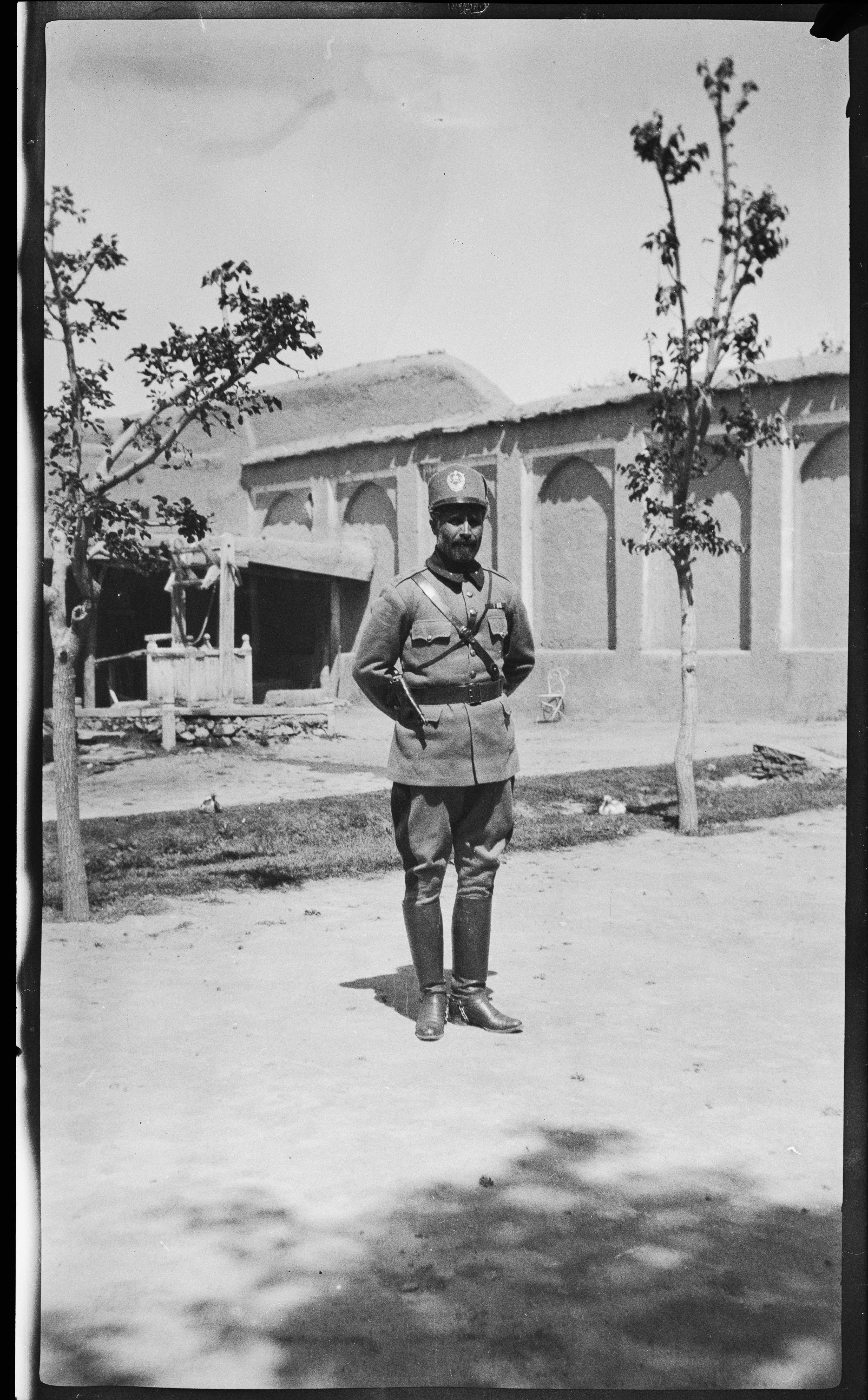 Kabul, Afghanistan Abdul Vaqil Khan, general from Ktiwi in Nuristan. Vaqil Khan had been kidnapped, along with other children, from Kafiristan after the afghan invasion in 1896. The Kafir boys were converted to Islam and forced to join the military in Kabul.